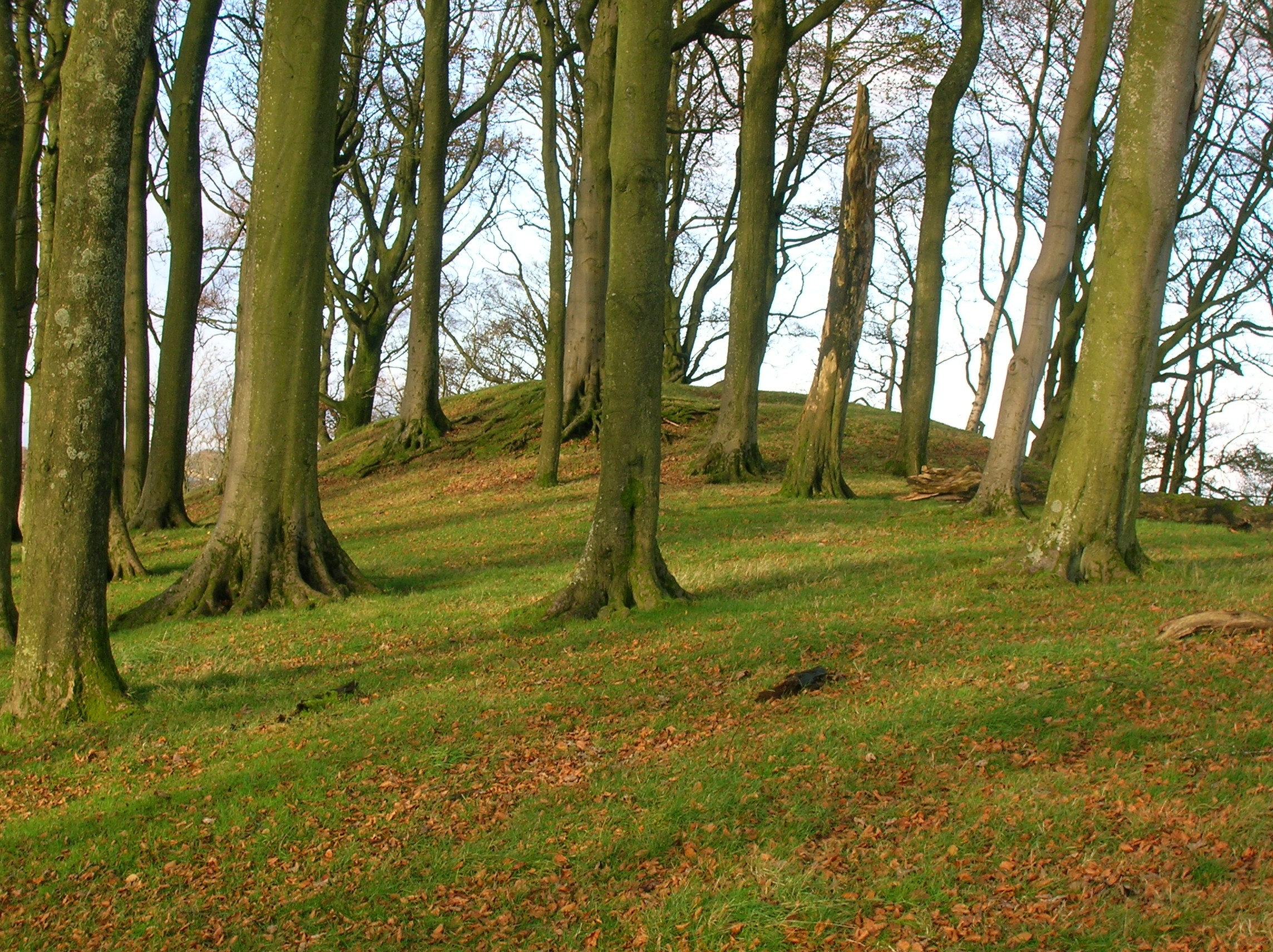 The Deil's Planting / Castle Hill / old Polnoon moot hill. Eaglesham, East Renfrewshire, Scotland.